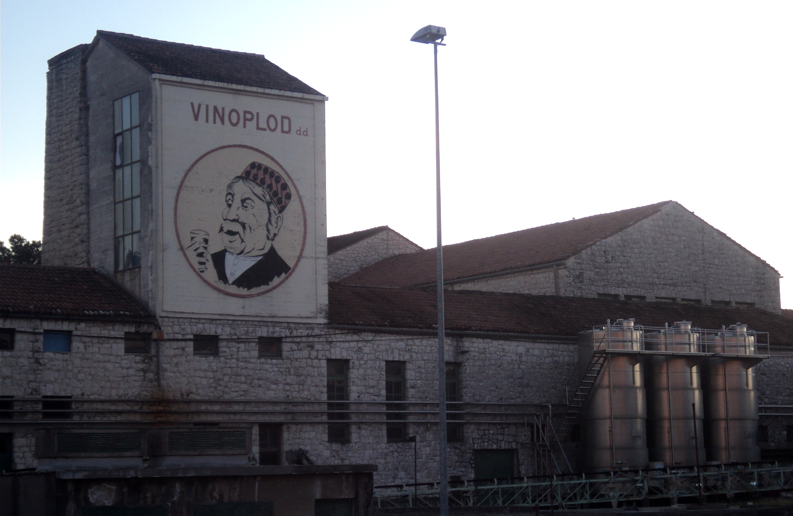 Production facility of "Šibenik Winery Vinoplod". Photo is taken from the parking lot of the Kaufland shopping center in the city district of Bioci.